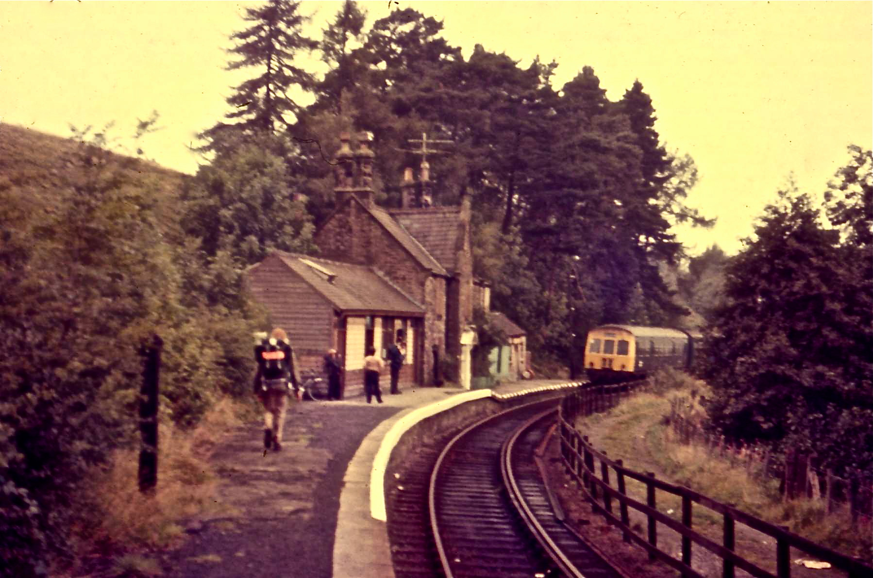 September 1973